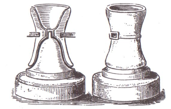 Reconstruction drawing of a Roman mill in Ostia. It consists of two stones: meta ( the lower stone) and catillus (the upper rotating stone)